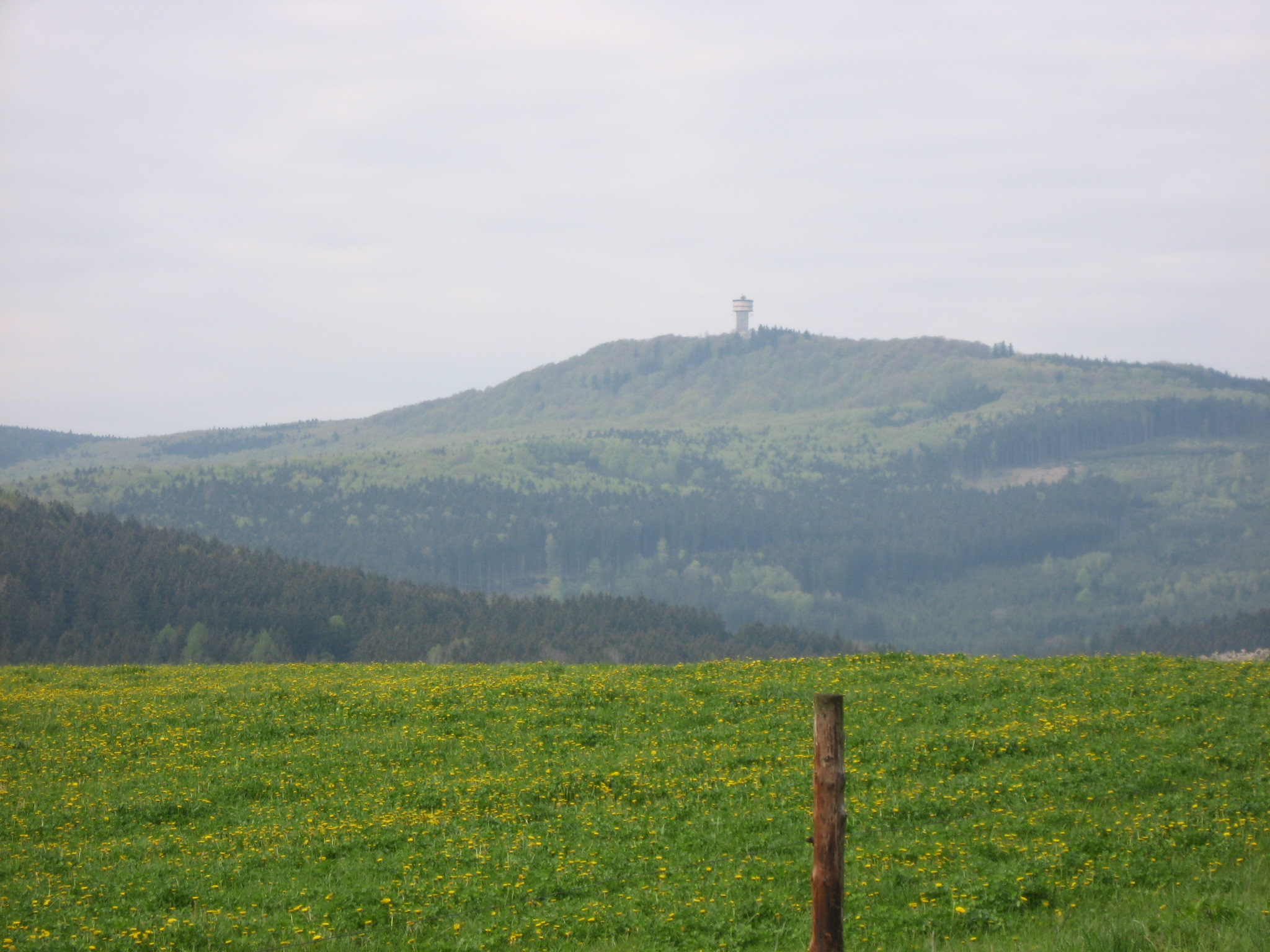 Velký Zvon - hill in the Český les mountains (Upper Palatinate Forest)